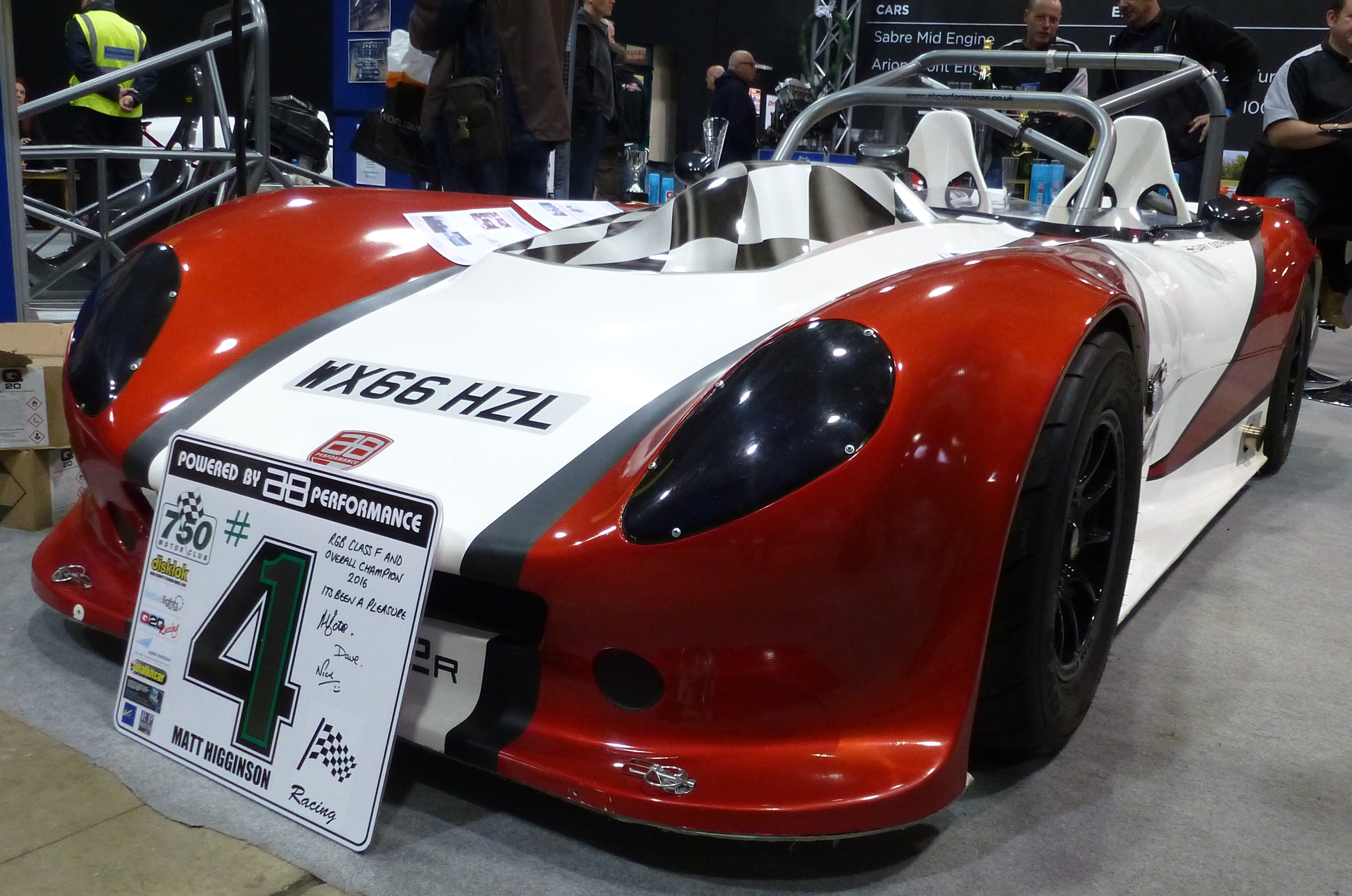 AB Performance Arion 2016